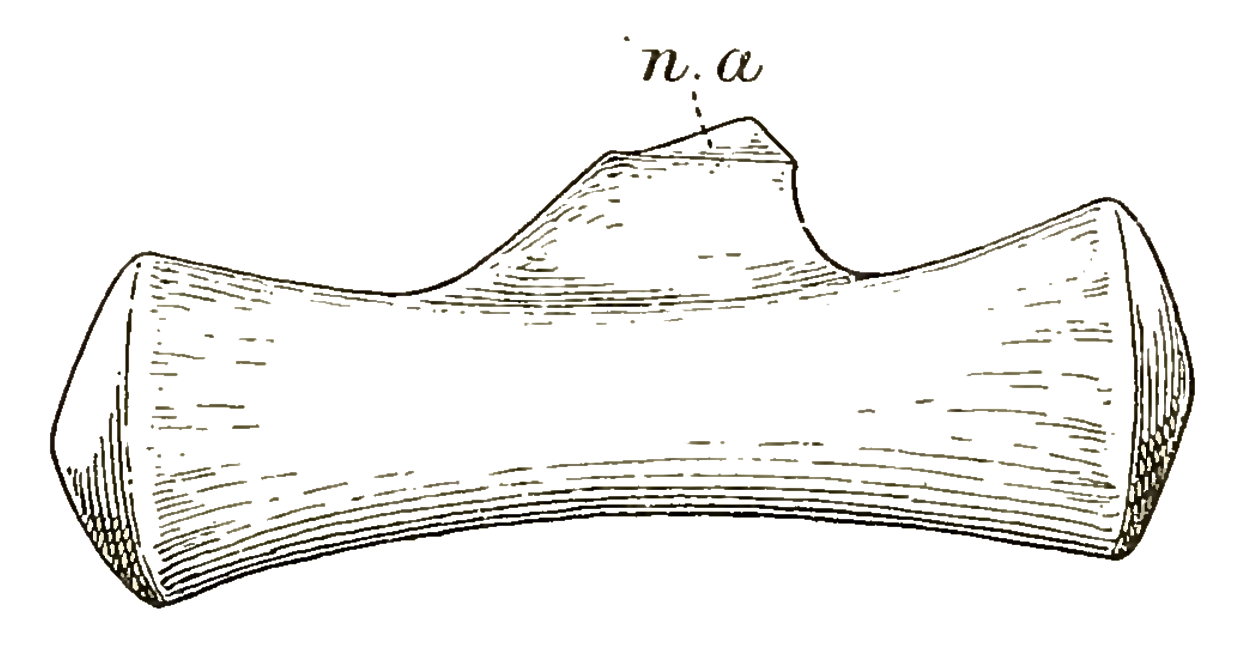 Cetiosaurus leedsi - One of the terminal caudal vertebra, left lateral aspect. n.a., surface for cartilaginous upper part of neural arch at summit of ossified lamina or pedicle. [Brit. Mus. no. R. 1967.] 2/3 nat. size.